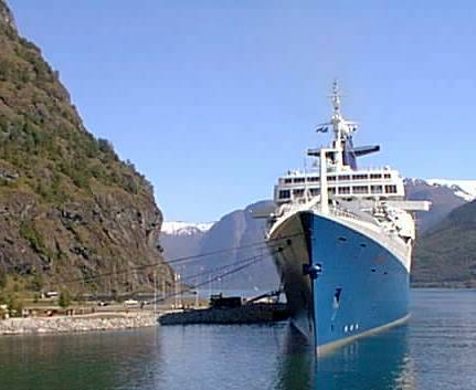 SS Norway in Flam Norway 1999